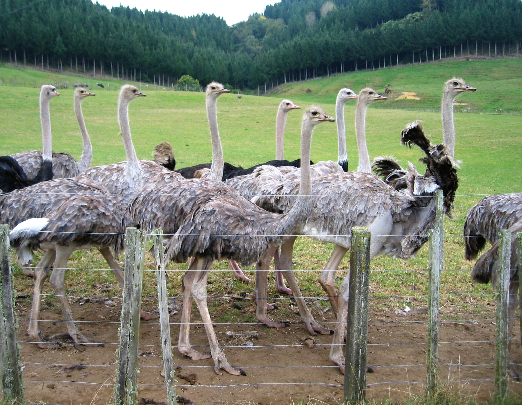 Ostriches (Struthio camelus) on a farm in New Zealand's Waikato region.